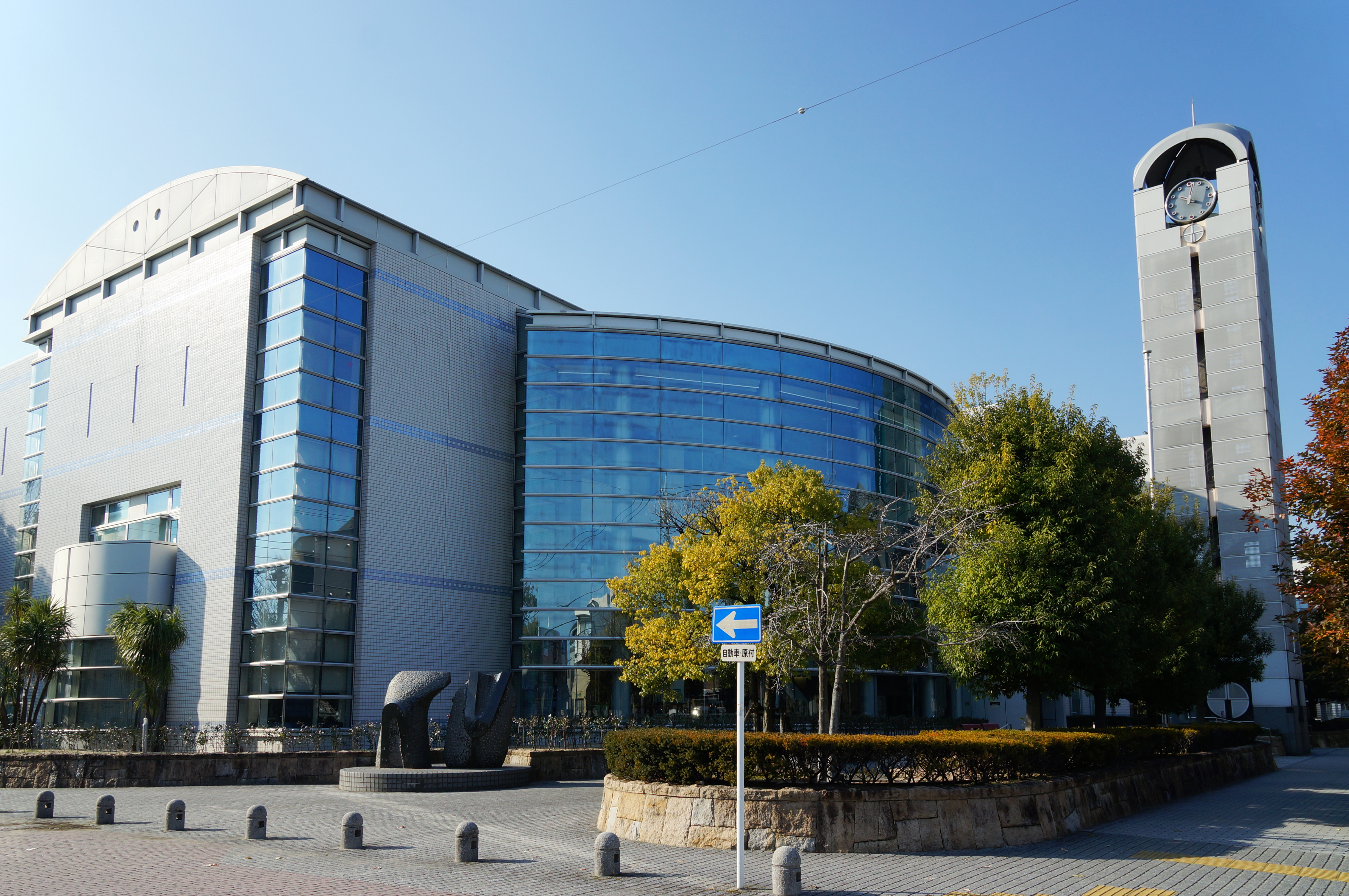 Kariya City Central Library in Kariya, Aichi prefecture, Japan.